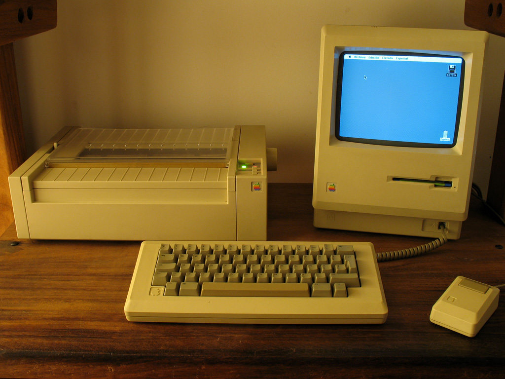 An Apple Macintosh 512K (also called a Fat Mac) with its original mouse and keyboard, next to an Apple ImageWriter I dot-matrix printer.